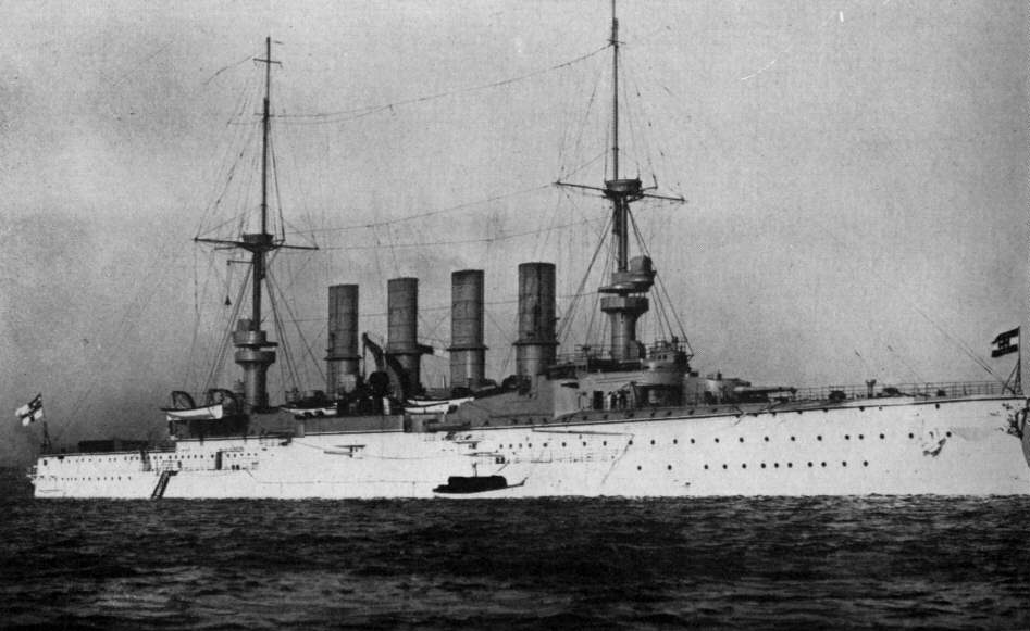 German armored cruiser SMS Scharnhorst around 1909